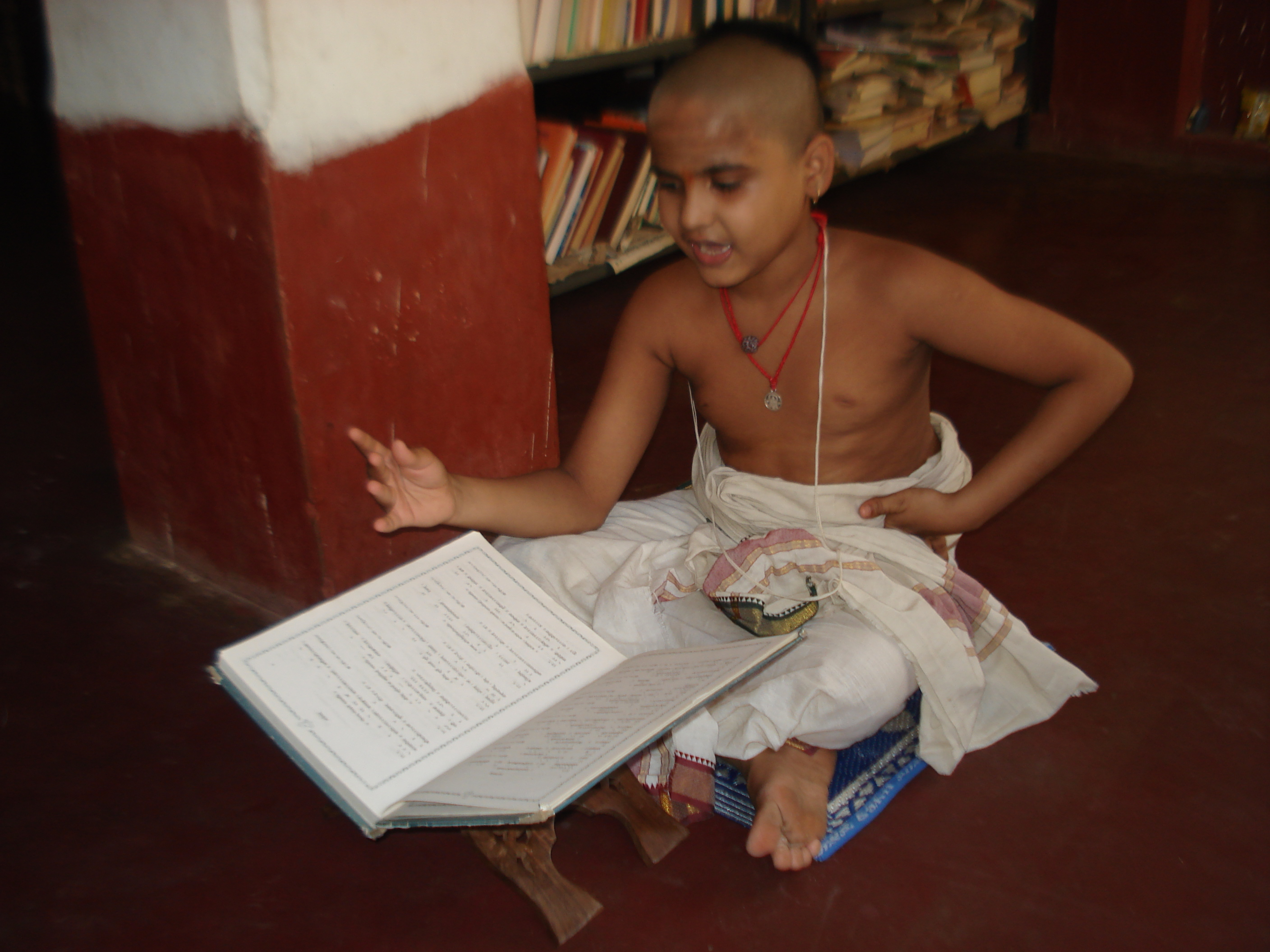 Student learning Veda. Location: Nachiyar Kovil, Kumbakonam, Tamilnadu.